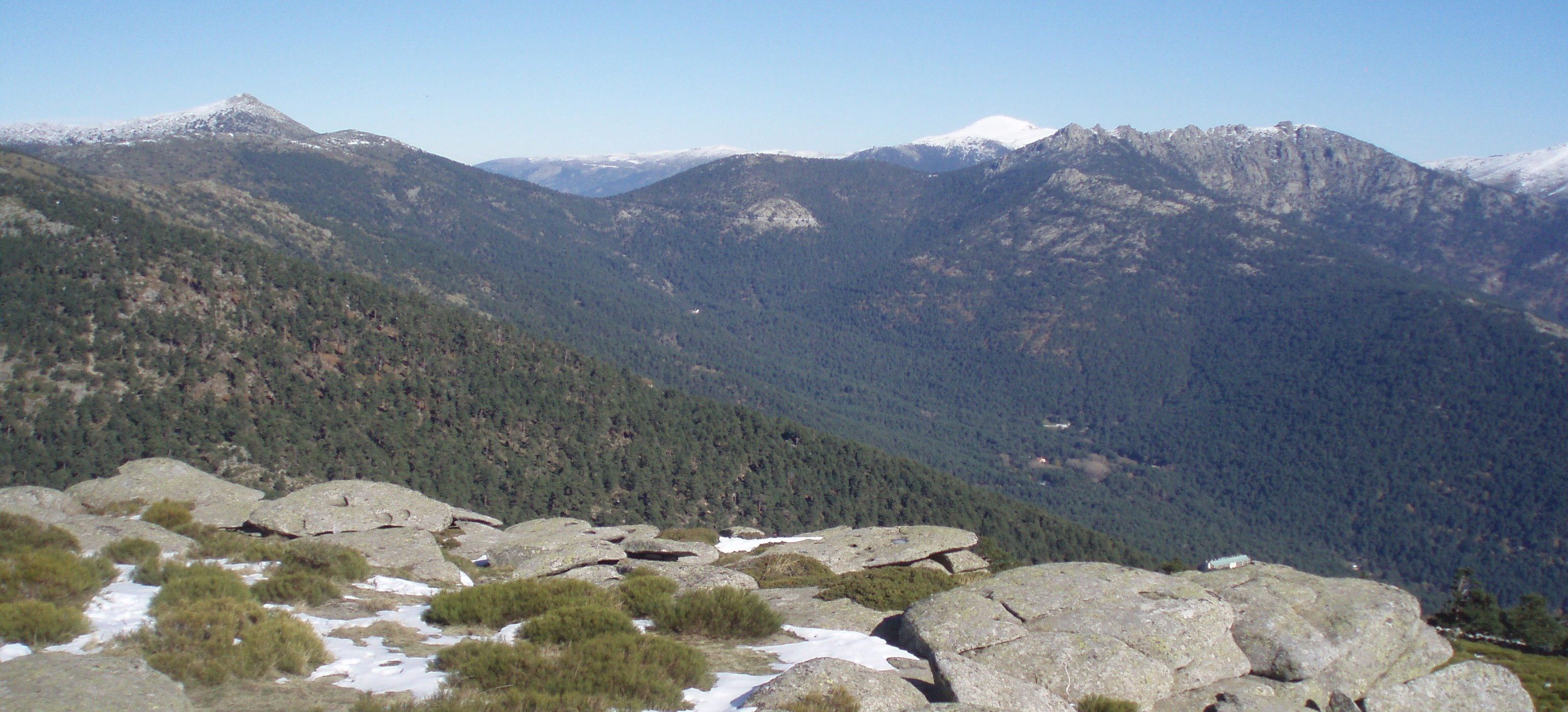 Fuenfría Valley seen from La Peñota's summit (Guadarrama mountain range, Central Spain).